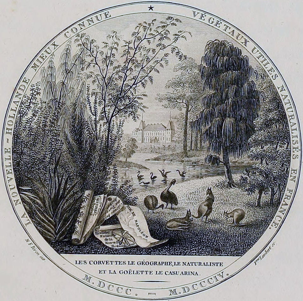 Dwarf emus and other animals outside Château de Malmaison. Frontispiece from the Atlas of the Voyage de découvertes aux Terres Australes.[1]